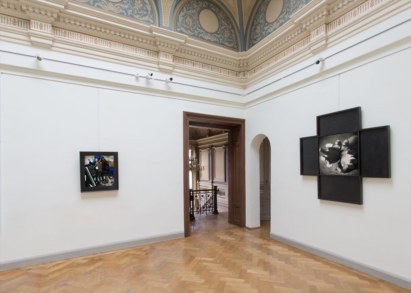 Oliver Mark - Exhibition View - No Show, Villa Dessauer, 2019